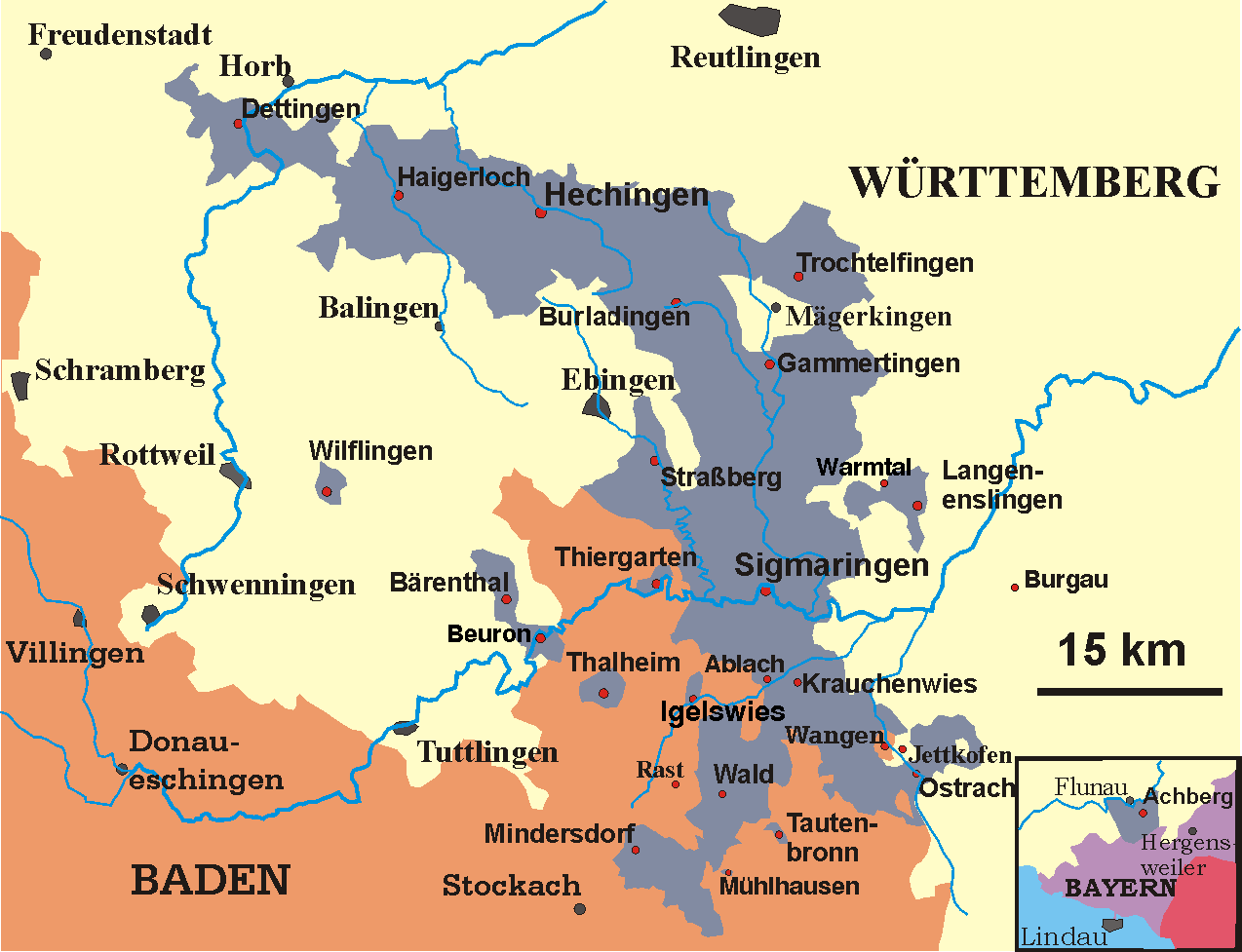 Map of the Prussian province of Hohenzollern, 1930